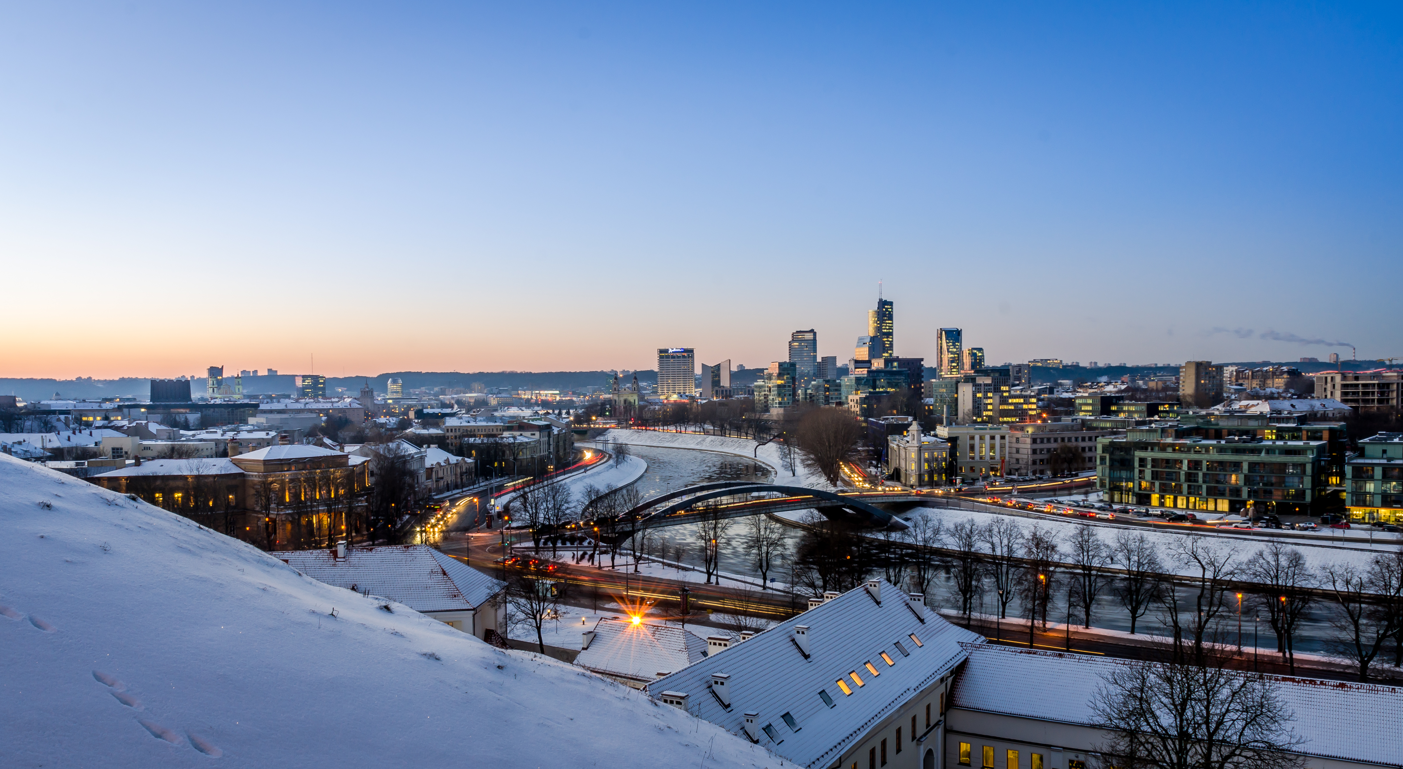 Winter cityscape of Vilnius in 2014.